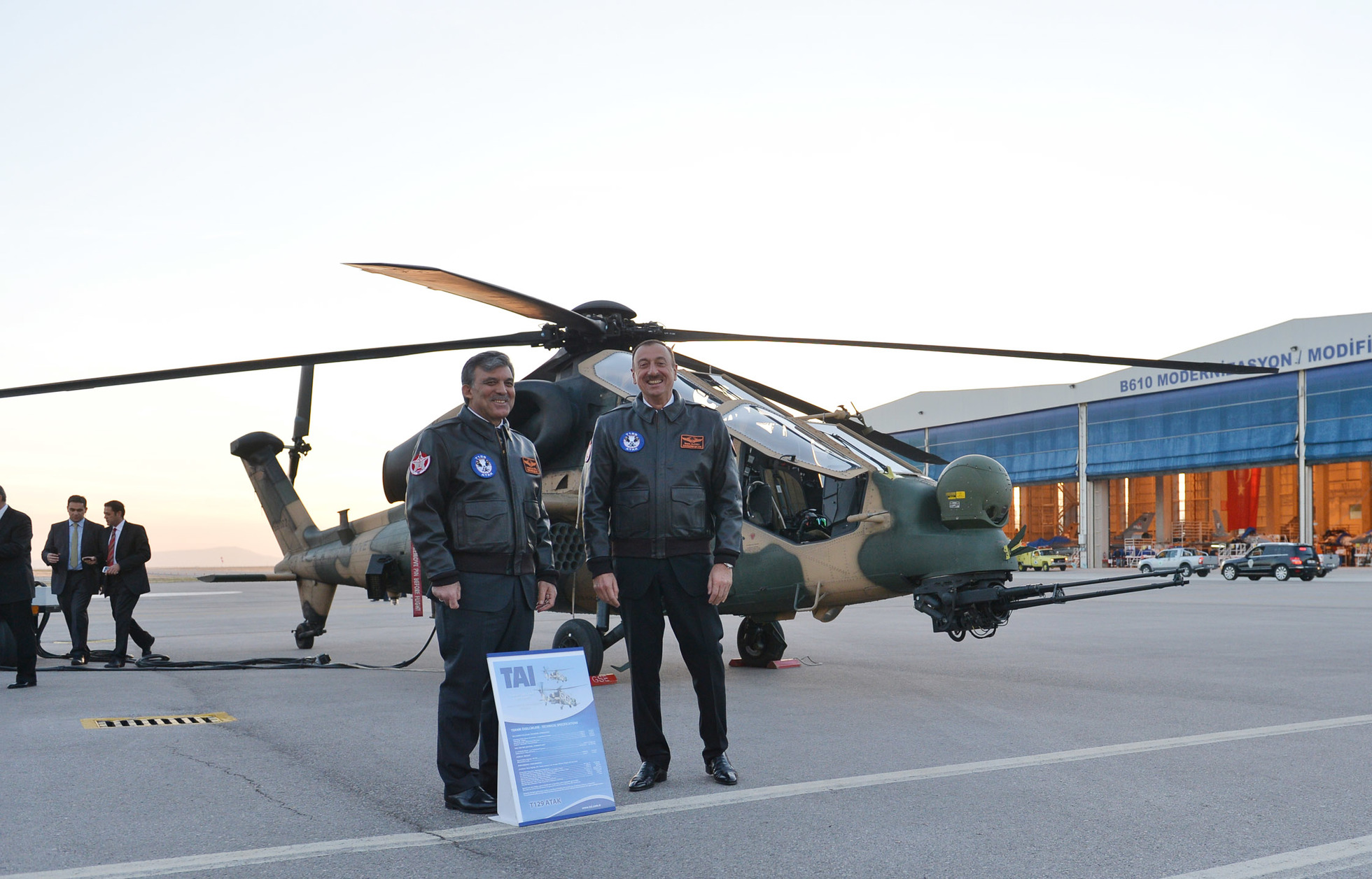 Azerbaijani President Ilham Aliyev with Turkish President Abdullah Gül in front of the T129 ATAK helicopter in Turkish Aerospace Industries, Inc., Ankara, Turkey.